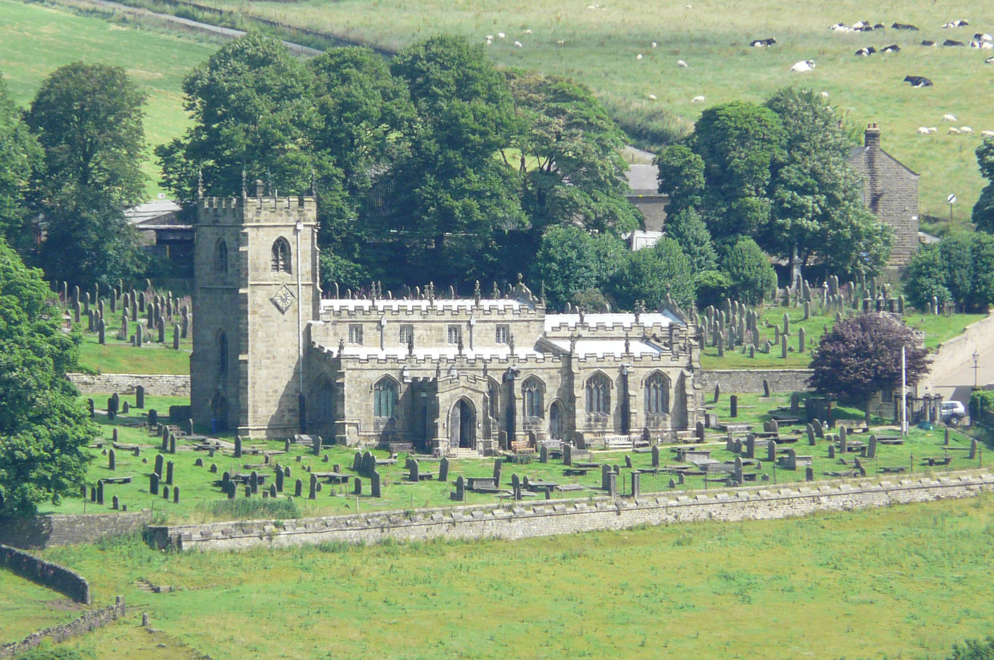 The church of St. Nicholas, High Bradfield, seen from the high ground 1.5 km to the south.